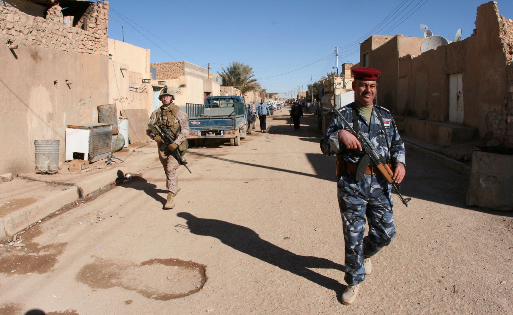 Cpl. Joseph Kyle Hayden, a fire team leader with Tango Battery, 2nd Battalion, 10th Marine Regiment, and an Iraqi soldier from the Provisional Security Forces participate in a joint security patrol in Rutbah, Iraq, Jan. 2. While Marines and members of the Iraqi Security Forces patrolled the streets and provided additional overwatch from guard posts, roadblocks and rooftop positions, senior leaders from throughout the region held a meeting to discuss security for the upcoming local and national Iraqi elections